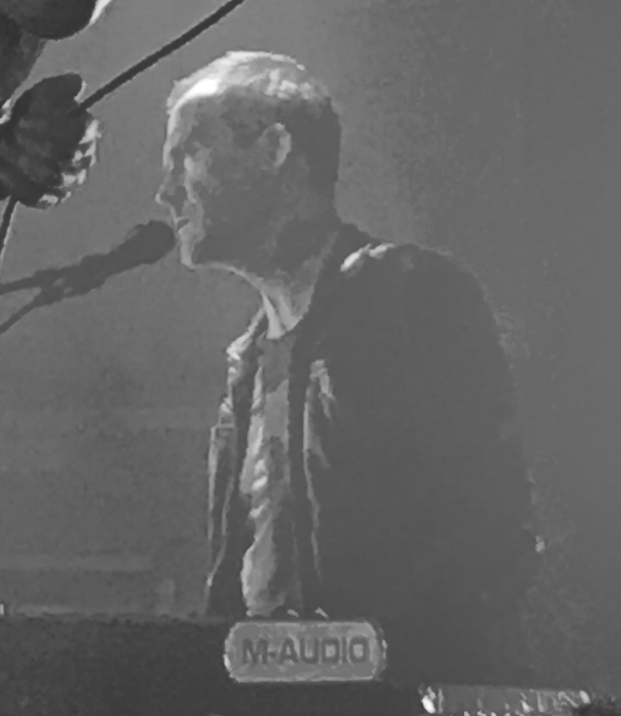 Mikkel Damgaard with Love Shop 2019